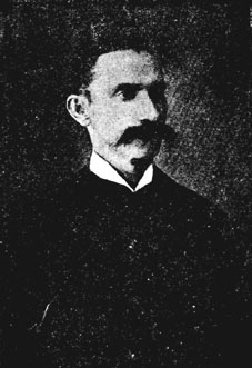 Farias Brito, Brazilian philosopher.